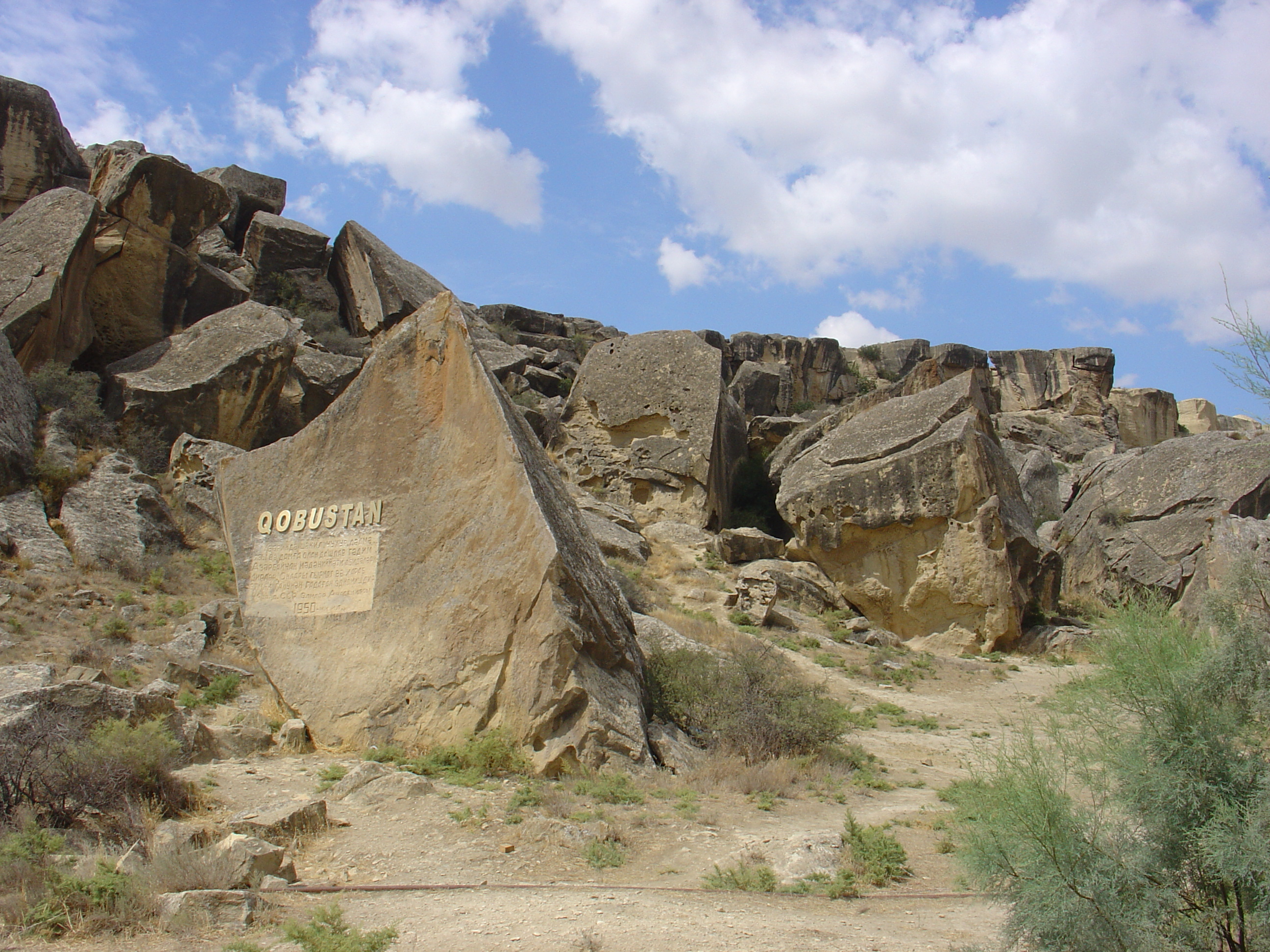 Entrance to Qobustan Petroglyph site, Azerbaijan